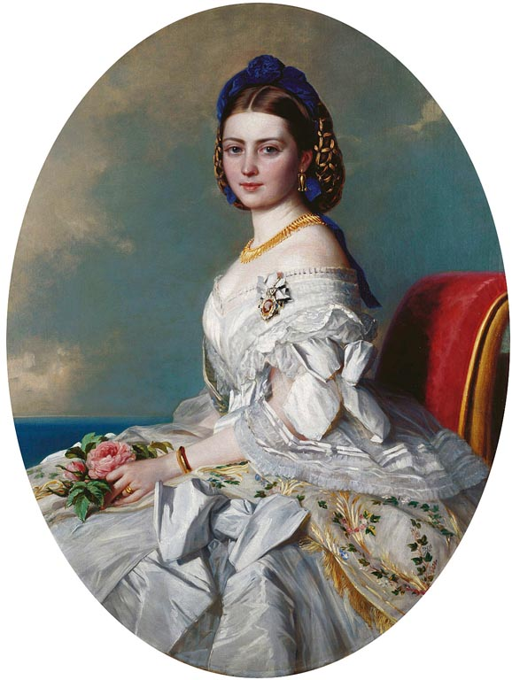 Victoria, Princess Royal, Crown Princess of Prussia, Vicky (1840-1901)